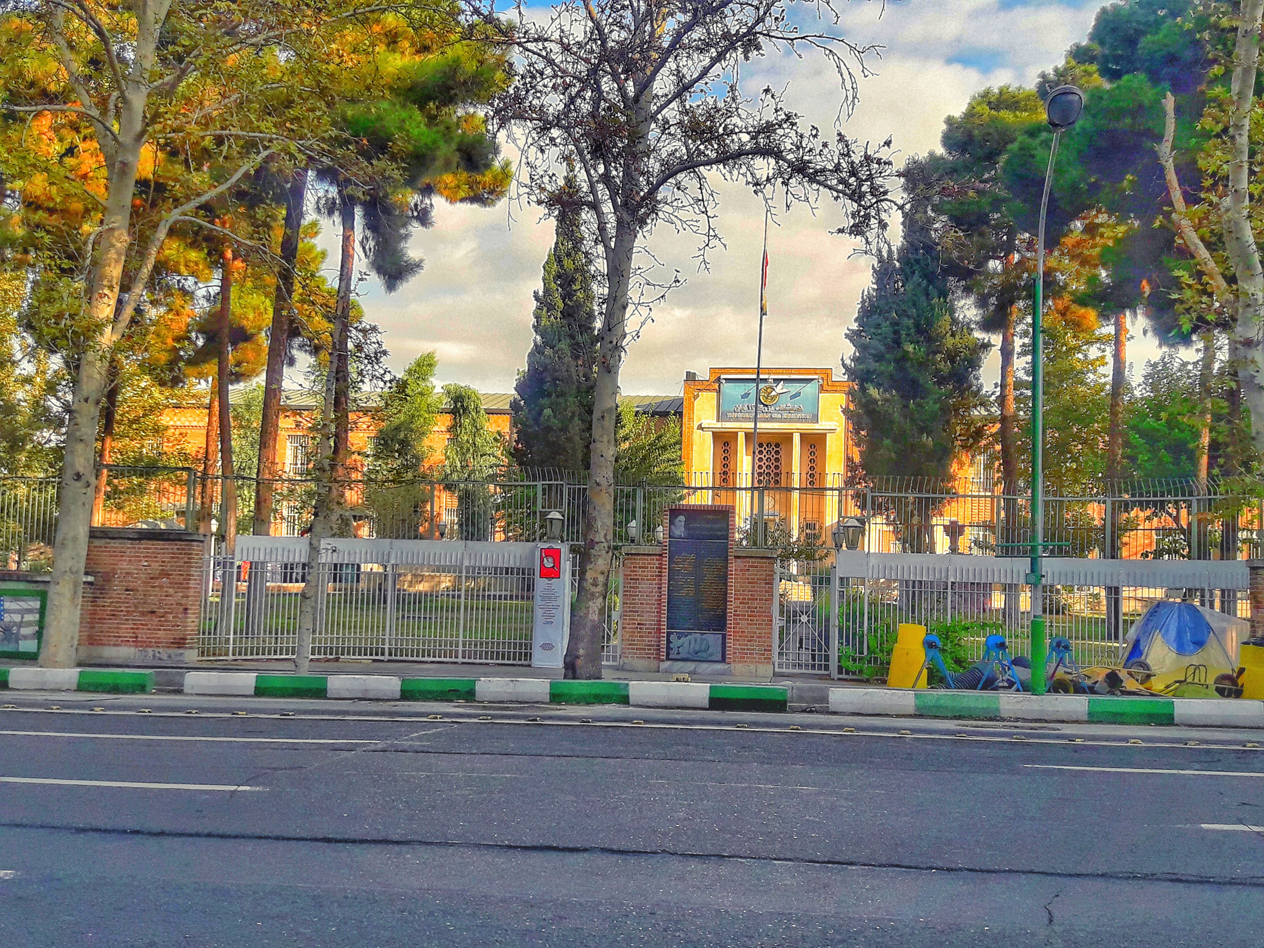 The former US Embassy in Tehran 6th of october